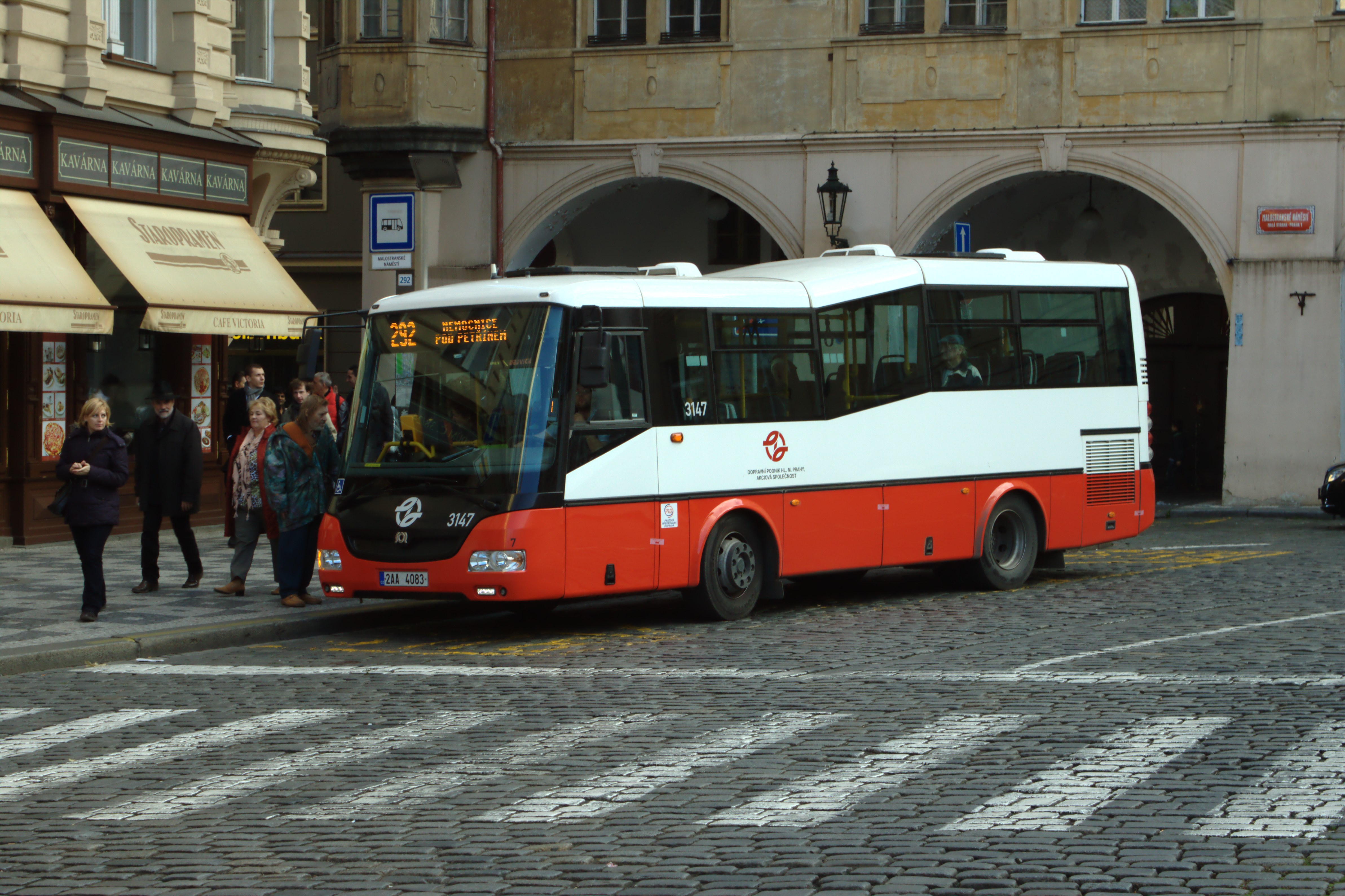 A SOR bus at Malostranské náměstí, Prague, CZ (replaced electrobuses, that broke down and DP Prague was unable to repair it)